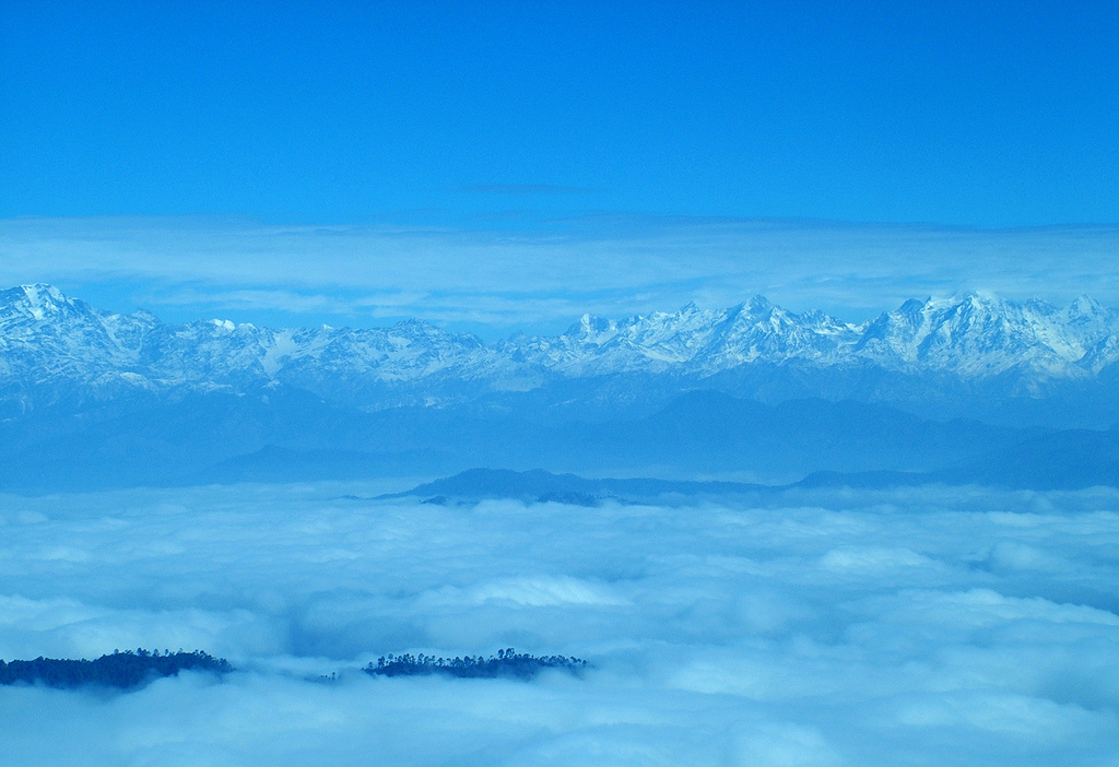 Binsar, a view of Kumaon Himalayas, (Uttarakhand)